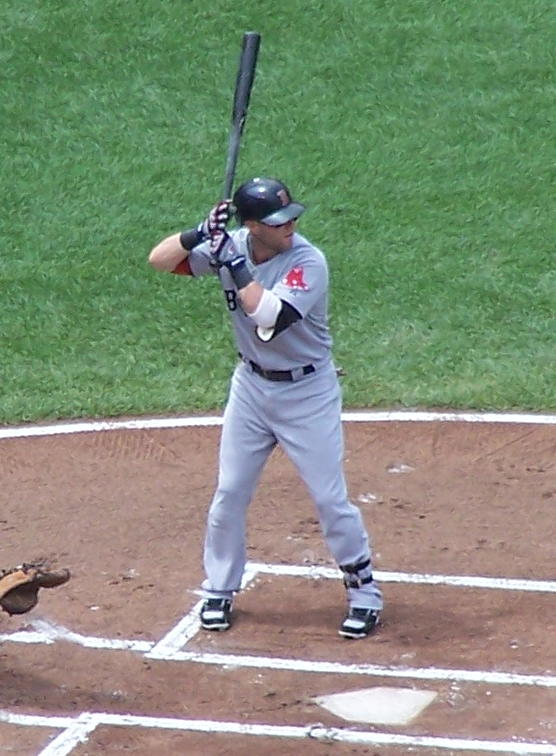 Dustin Pedroia bats against the Baltimore Orioles in the first inning